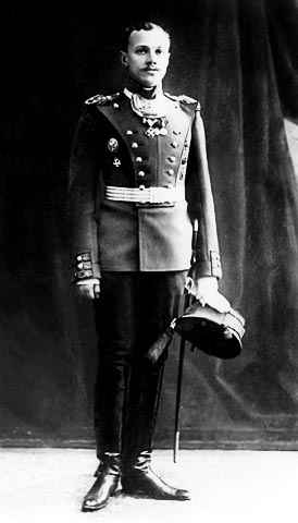 The staff captain (Stabskapitän) Y. A. Slashchov (1885—1929)